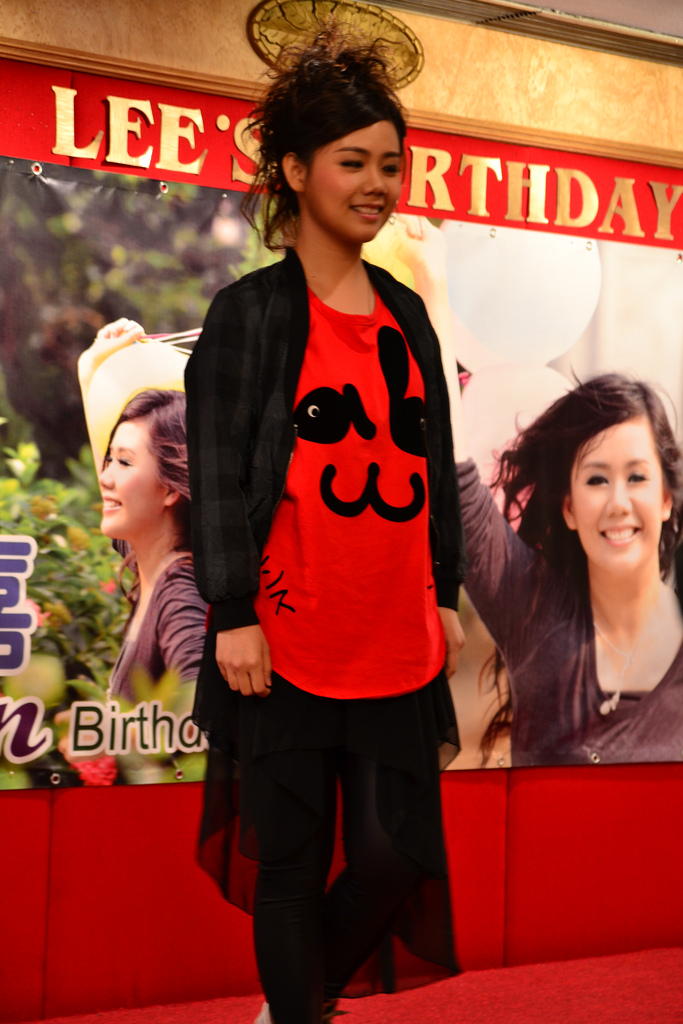 Hong Kong singer Sharon Lee (李昊嘉) at the 2011 Ms Sharon Lee's Birthday Party.